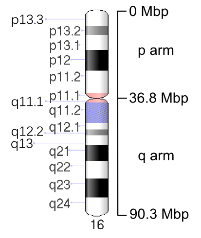 Ideogram of human chromosome 16. G-band, 550 bphs (bands per haploid set). Black and gray: Giemsa positive. Red: Centromere. Light blue: Variable region. Dark blue: Stalk. Mbp: Mega base pairs.